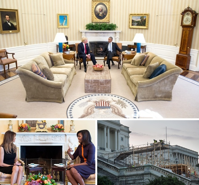 Top: President Barack Obama (right) and President-elect Donald Trump (left) meet in the Oval Office of the White House as part of the Presidential transition. Bottom Left: Michelle Obama and Melania Trump have tea in the Yellow Oval Room. Bottom Right: The presidential dais is constructed at the U.S. Capitol for Donald Trump's inauguration.